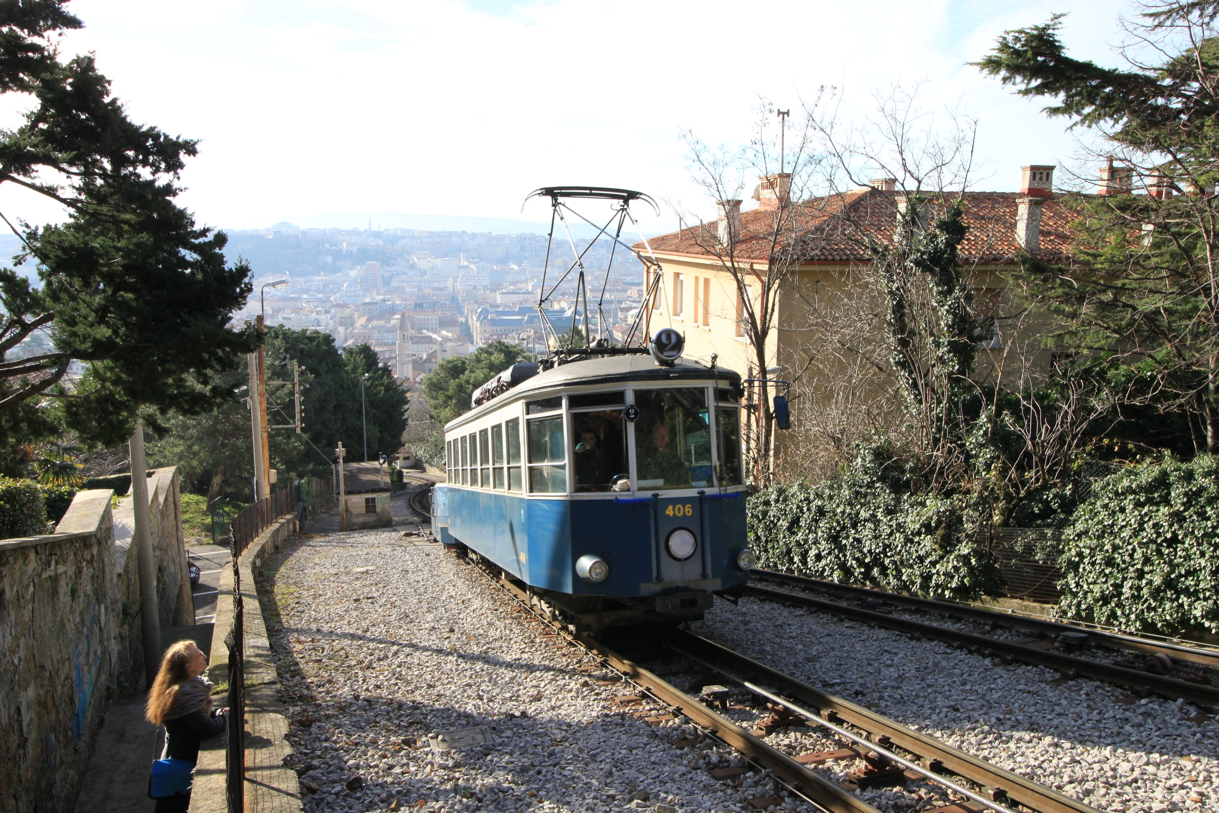 Trieste-Opicina tramway; carriage no. 406 on the funicular section near Sant Anastasio